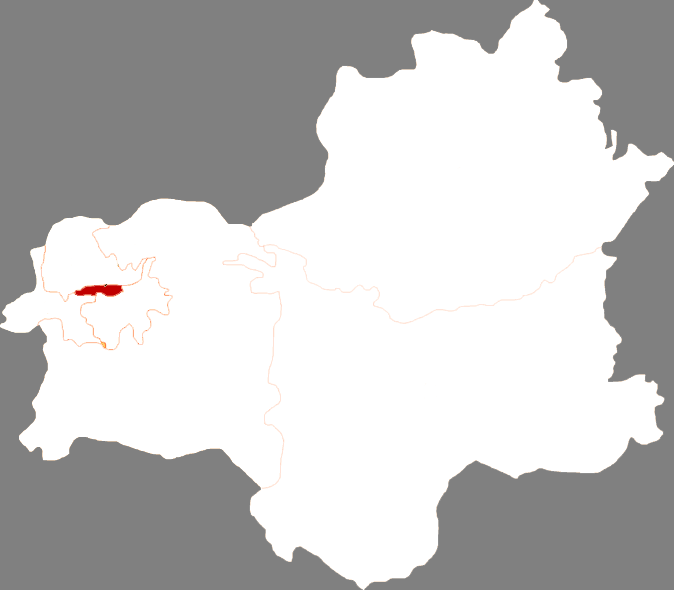 Location of Xinfu district in Fushun City, China